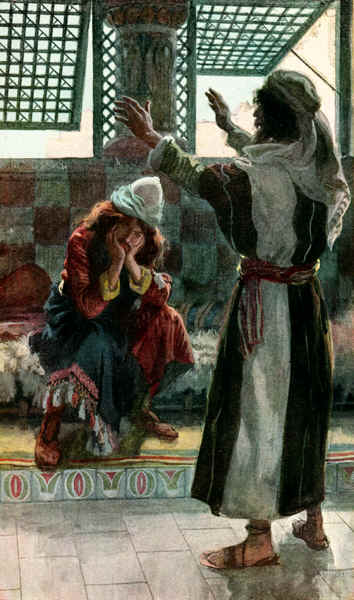 Nathan Rebukes David, as in 2 Samuel 12; watercolor circa 1896–1902 by James Tissot